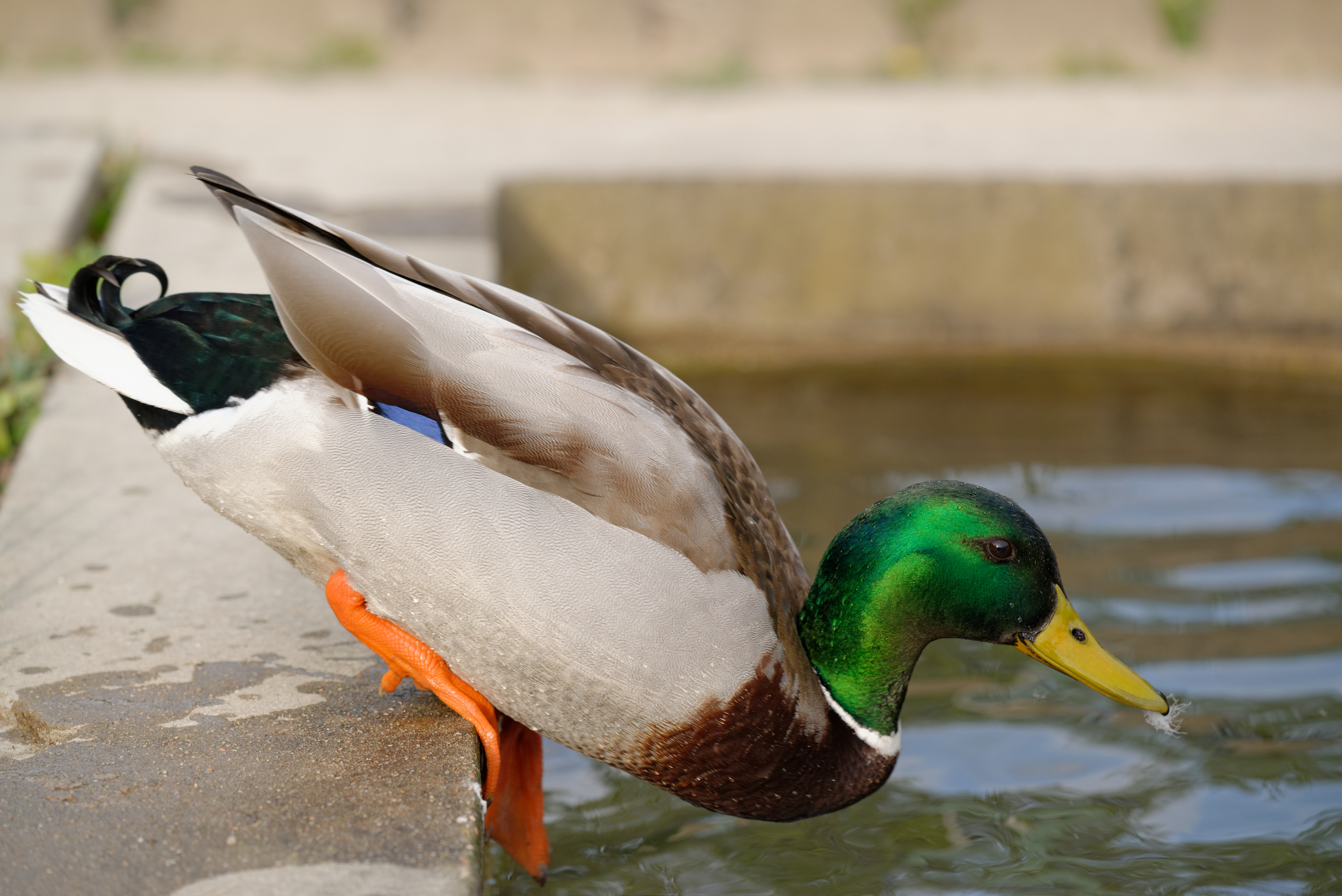 A mallard drake (Anas platyrhynchos) about to enter a pond. Botanic school of the Jardin des Plantes of Paris.